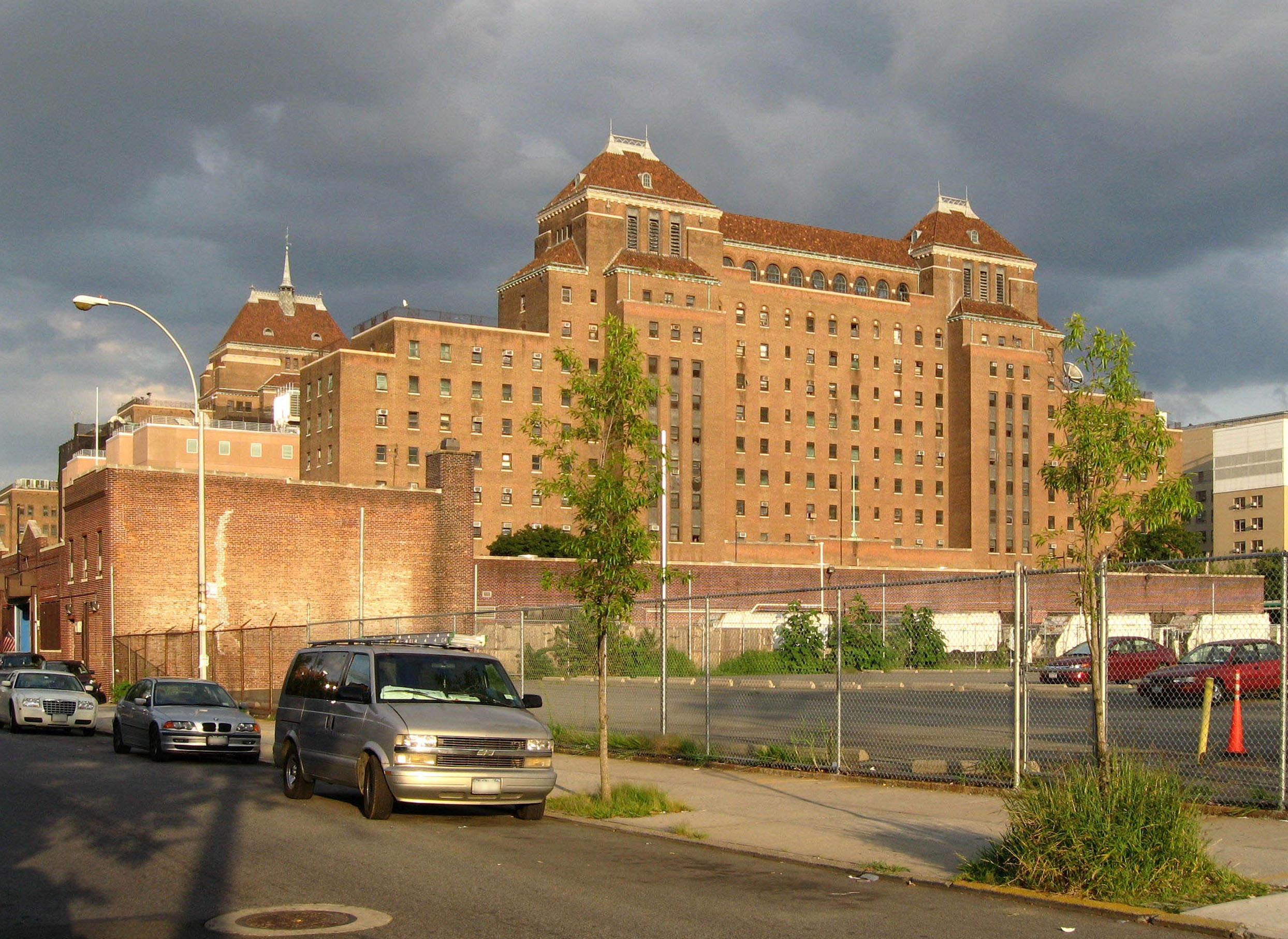 Looking east along Winthrop at Kings County Hospital Center on a sunny late afternoon. Downstate Medical Center is south (right) of this building.